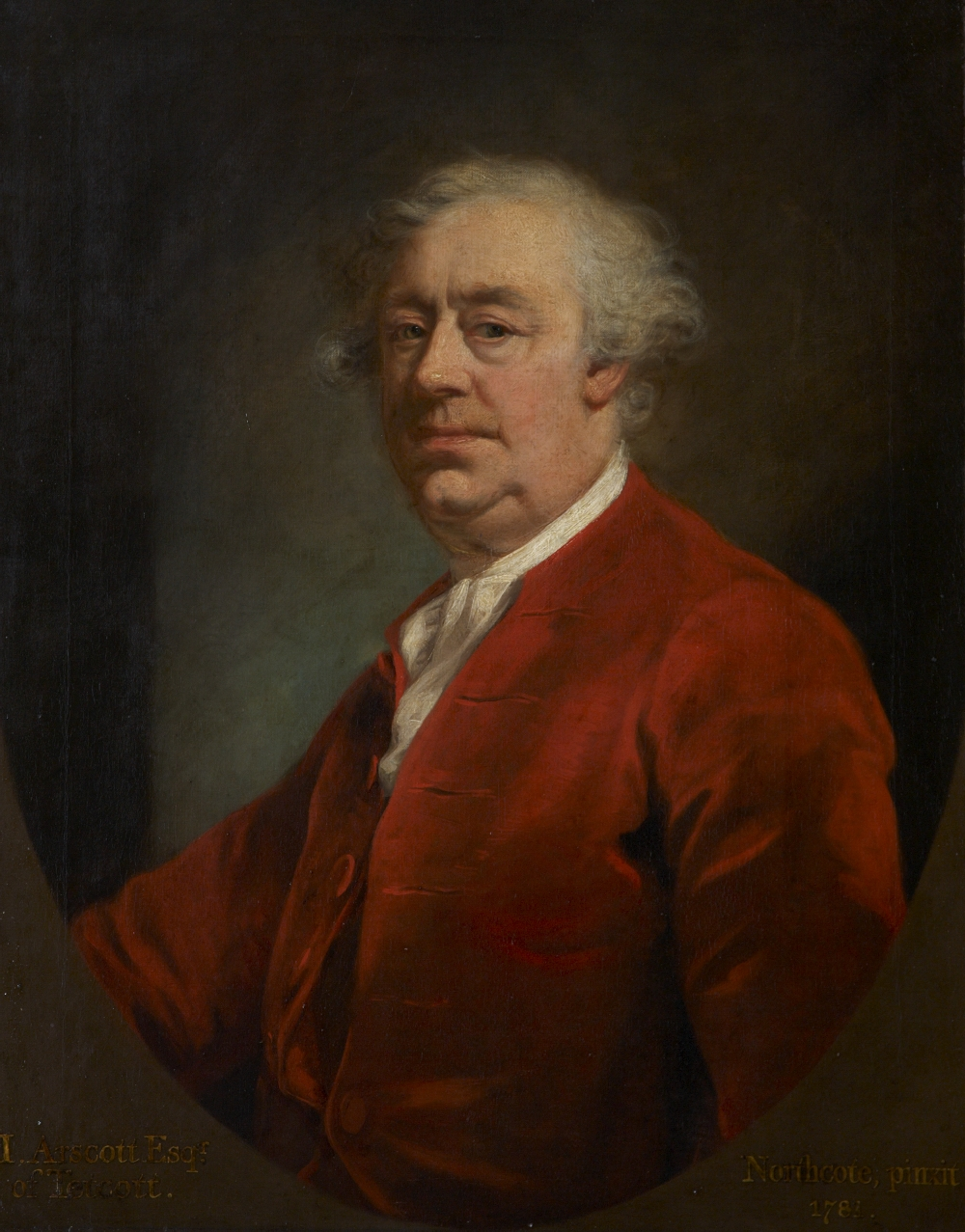 John Arscott (d.1788), the last of the Arscotts of Tetcott, Devon. Portrait by James Northcote (1746-1831), Oil on canvas, 76 x 63.5 cm. Property of National Trust, collection of Saltram House, Plympton, Devon. Provenance: gifted as part of the Saltram House endowment by the 6th Earl of Morley, 1957